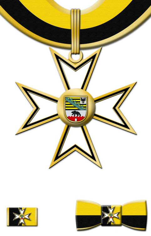 Order of Merit of Saxony-Anhalt